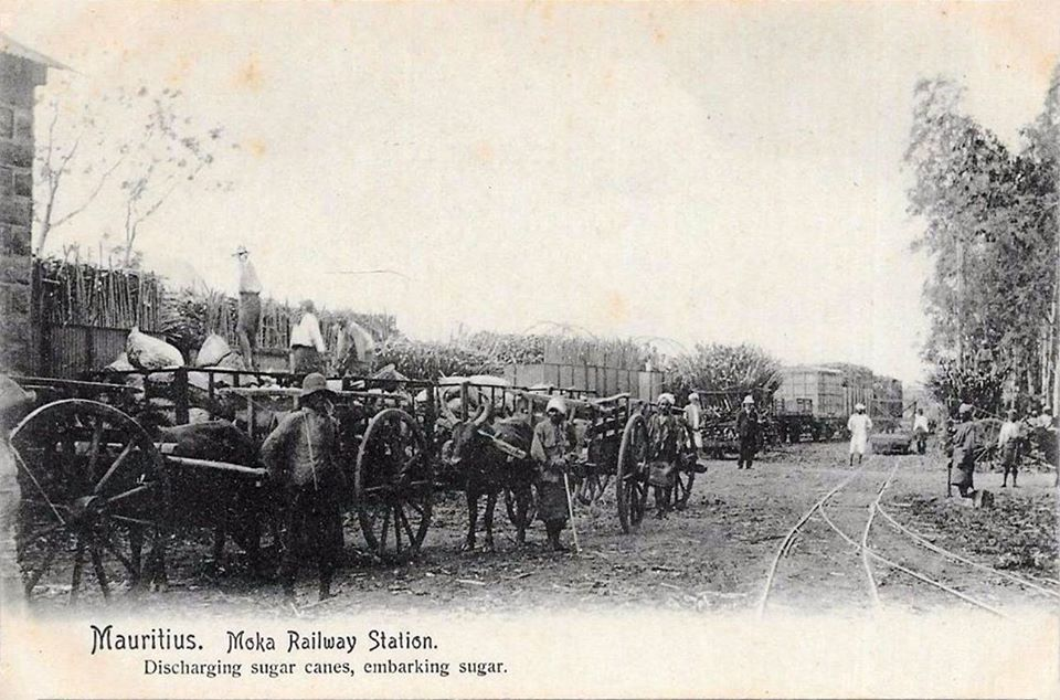 Gare ferroviaire de Moka